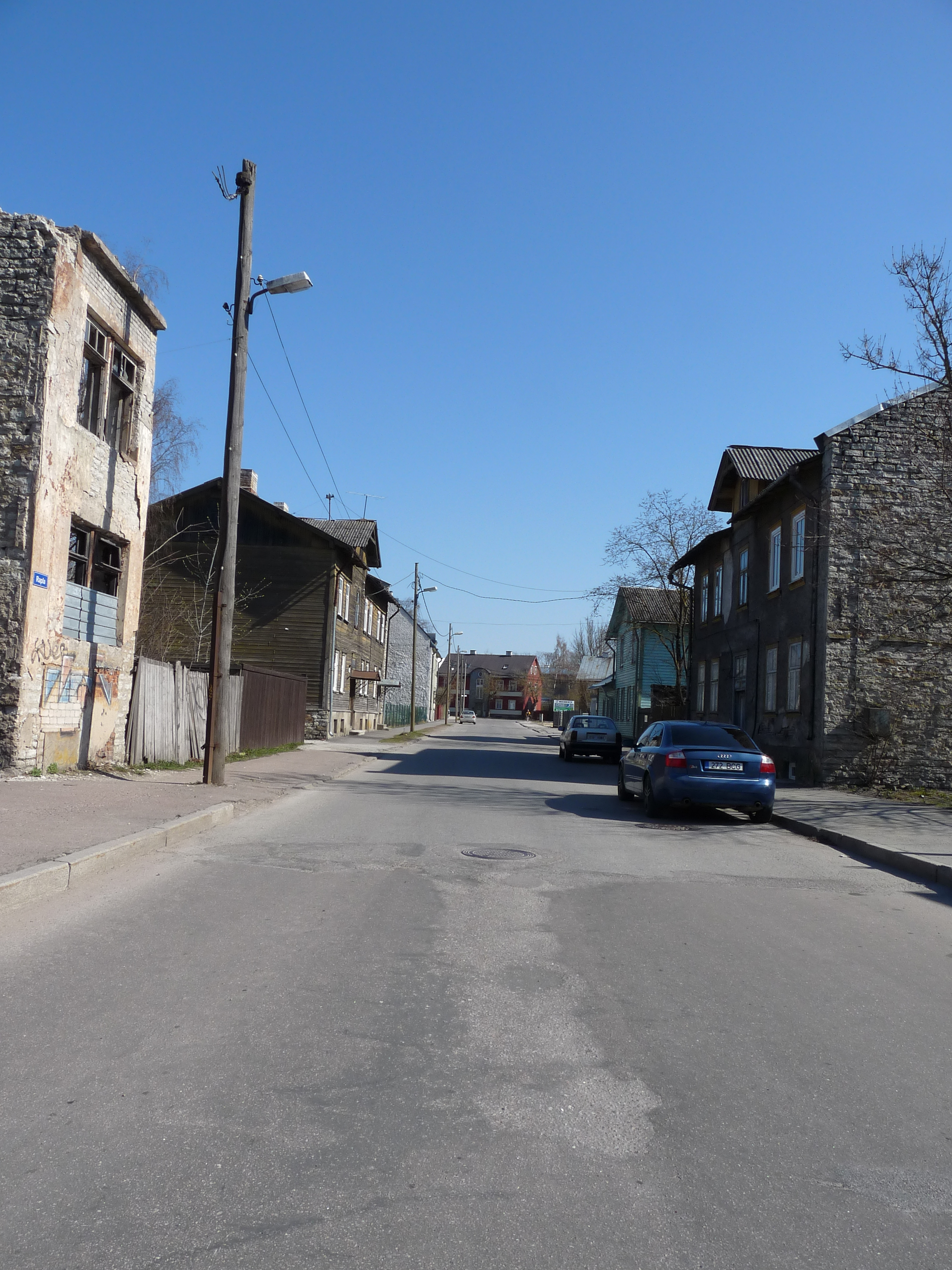 Rapla street in Tallinn, Estonia